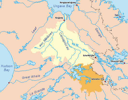 Drainage basin (in yellow) of the Koksoak River, Quebec, Canada. Diverted basin of the Caniapiscau River to the La Grande River is in orange.